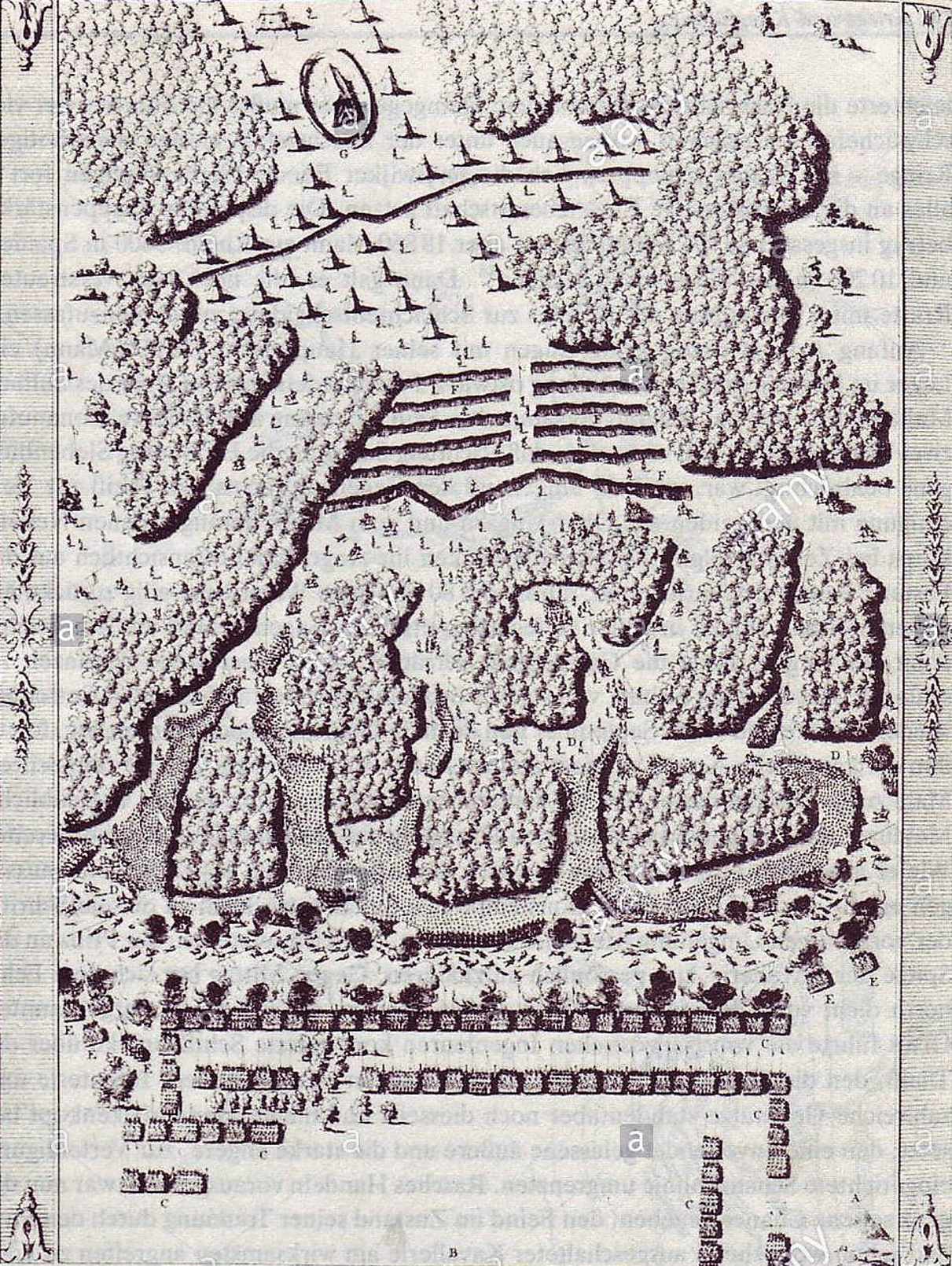 Ancient scheme of the Battle of Mohács (1687) (1687) by the Italian naturalist and soldier Luigi Ferdinando Marsigli (1658 – 1730). From his book "Stato militare dell'imperio ottomano", 1732.